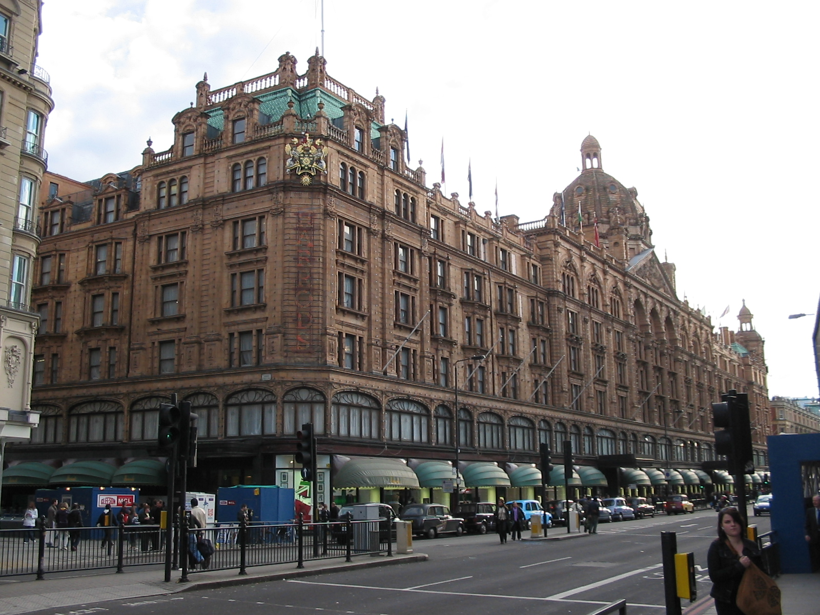 Harrods